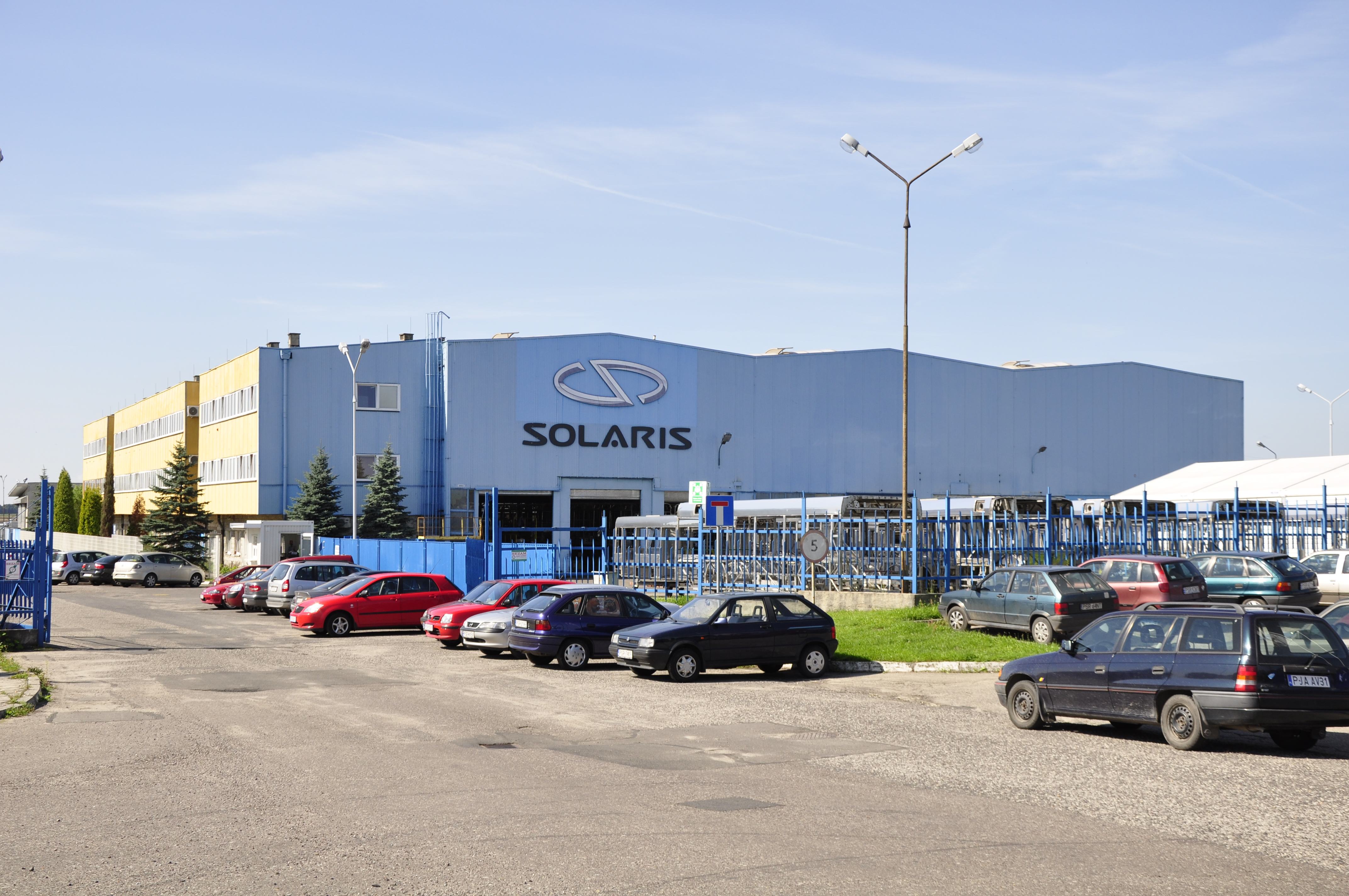 Solaris Bus & Coach factory in Środa Wielkopolska, Poland.